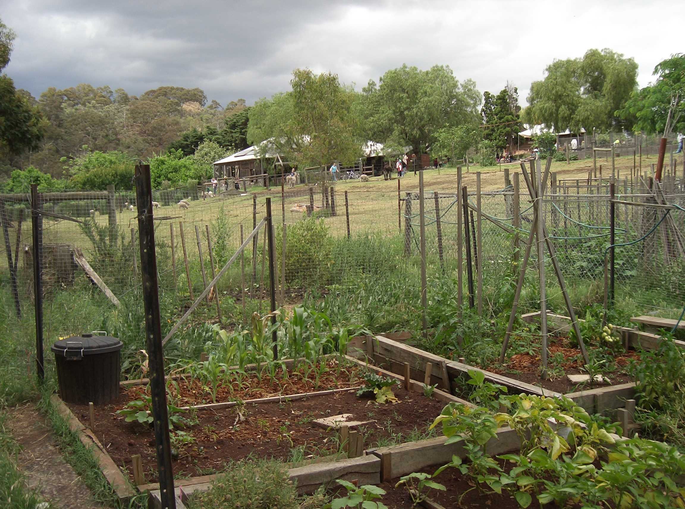 Collingwood Children's Farm garden plots and in the background, farm animals (mostly sheep).